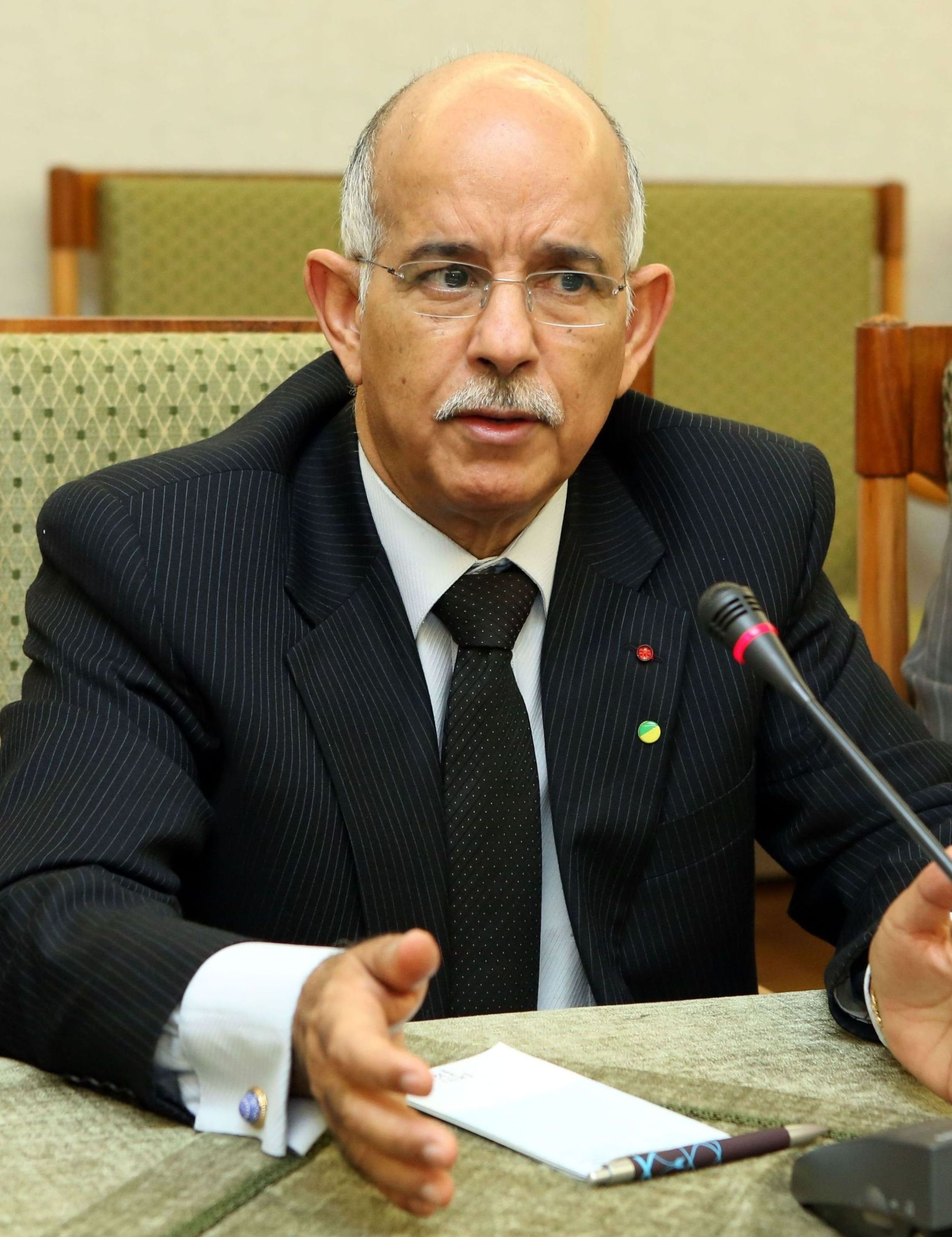 President of the Assembly of Councillors of Marocco Mohamed Cheikh Biadillah in the Polish Senate